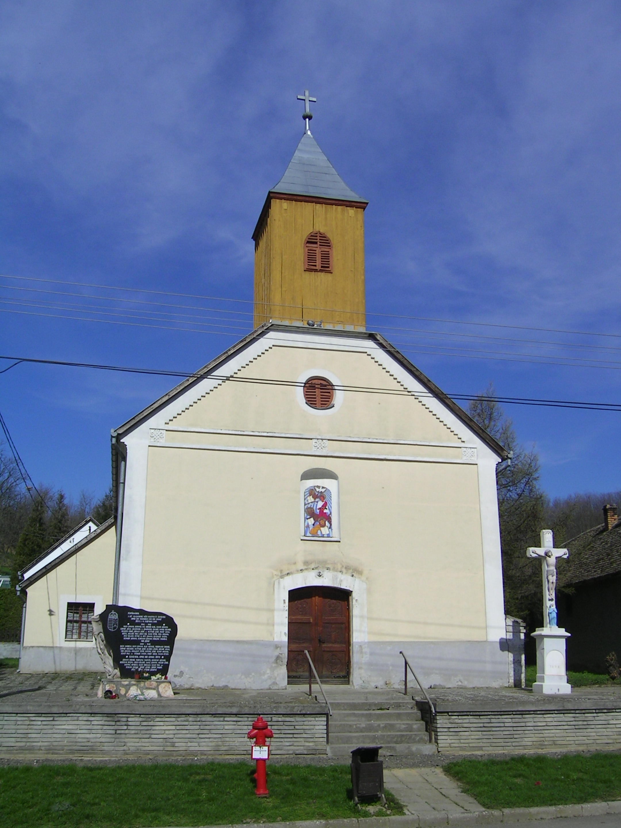 Saint Luke Roman catholic church in Erdősmárok, Hungary